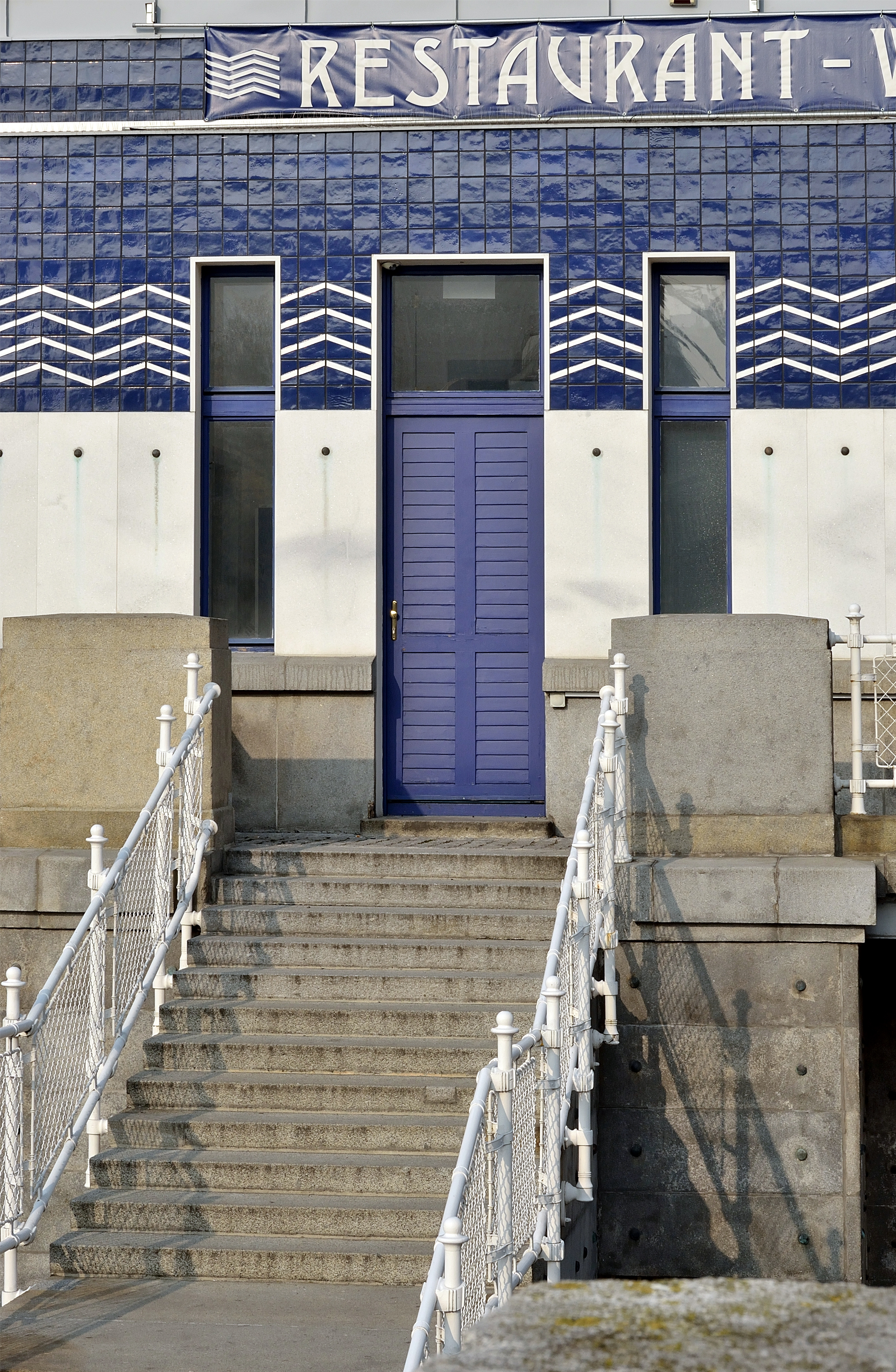 Schützenhaus, Vienna